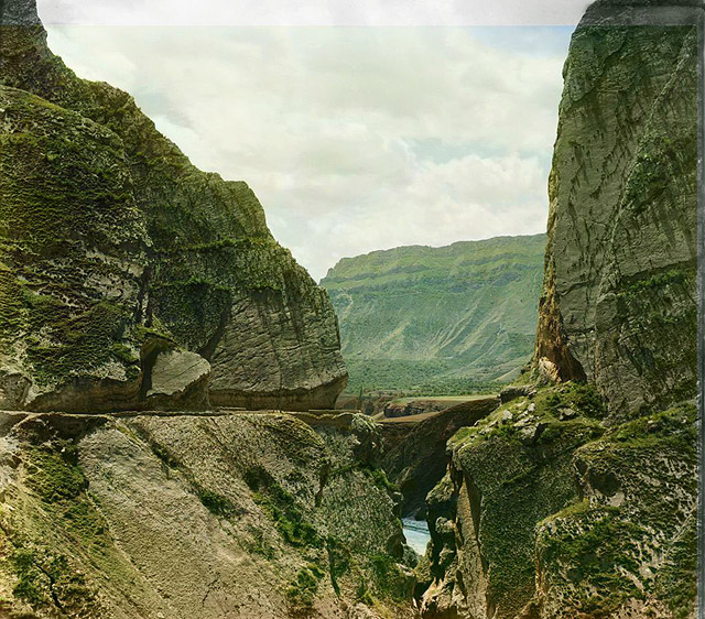 View of a gorge in the Caucasus Mountains in Dagestan. Early color photograph from Russia, created by Sergei Mikhailovich Prokudin-Gorskii as part of his work to document the Russian Empire from 1909 to 1915.